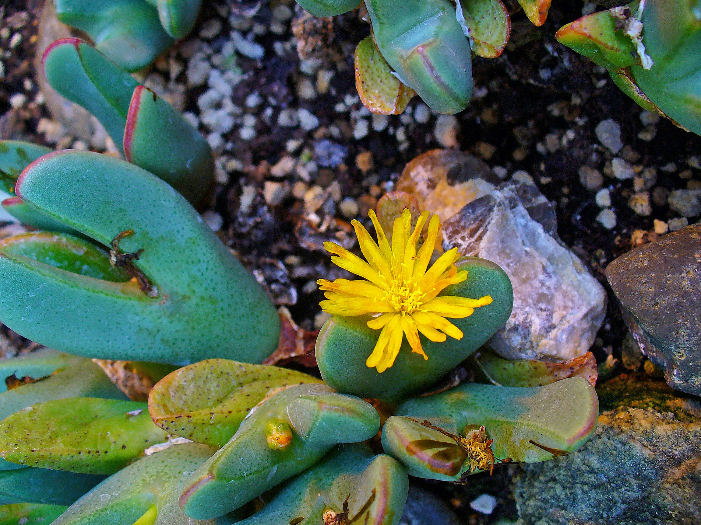 Conophytum meyeri, Aizoaceae, flower; Botanical Garden KIT, Karlsruhe, Germany.